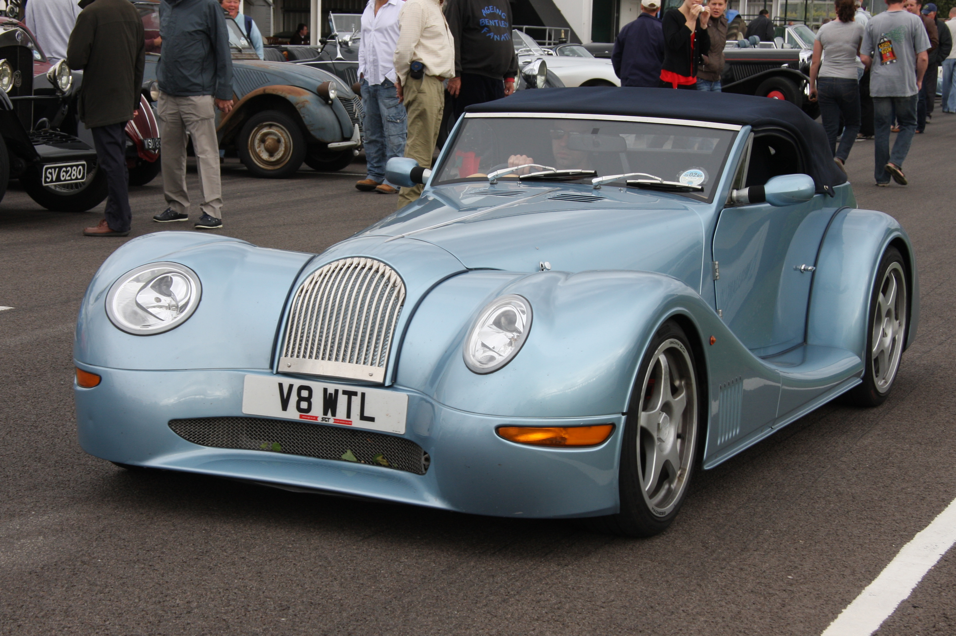 A Morgan Aero 8.